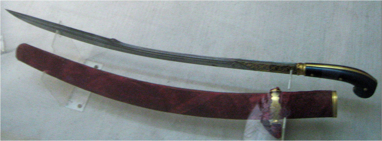 Ottoman Yatagan, 17th to 19th century